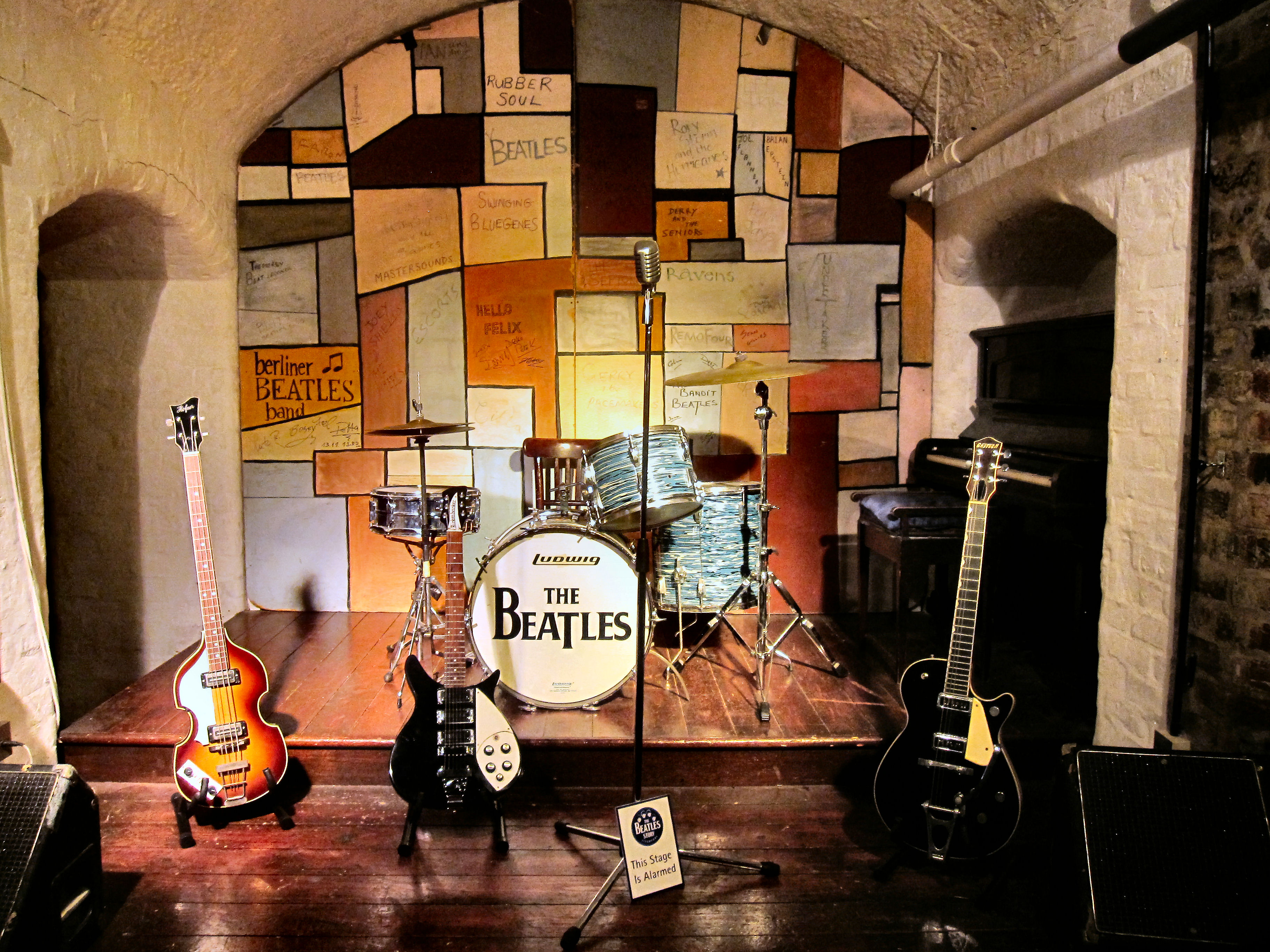 The Cavern Club is a rock and roll club in Liverpool, England. Opened on Wednesday 16 January 1957, the club had their first performance by The Beatles on 9 February 1961 and where Brian Epstein first saw The Beatles performing on 9 November 1961.